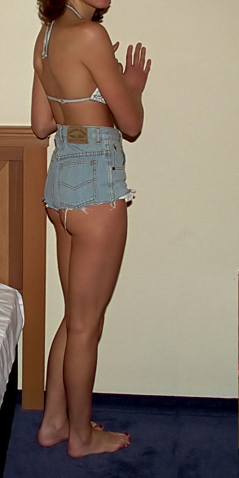 Fotomodel wearing a silver color bikini and a self cropped jean shorts, showing her buttock